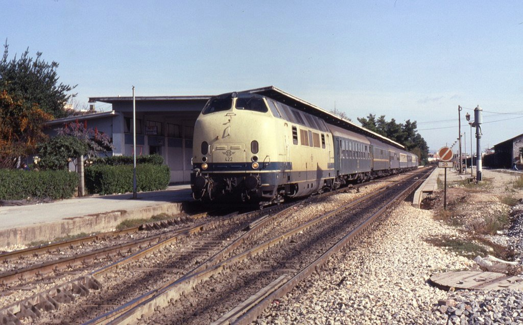 Built by Krauss-Maffei between 1962 and 1965 and originally numbered V200.1, being a more powerful version of the popular V200 class. After computer numbering in Germany some years later, they became class 221. In 1989, 20 were exported to Greece and used mainly on passenger trains on the Athens to Thessaloniki mainline. Renumbered into class A410 they lasted only for a few years in service in Greece. Many were laid up in storage for many years before being sold back to German private operator, Eisenbahn GmbH Prignitzer in 2002. Since then, they have found their way into other private operators hands or withdrawn from service. Sporting the familiar DB blue and white livery, no. A422 is seen at Larisa on 6 November 1992 on train 603, 20:05 Dikaia to Athīna which it worked from Thessaloniki. Travelling with two other friends, by this point we were 55 minutes late where our planned connection to Volos had left on time some 10 minutes before we arrived.